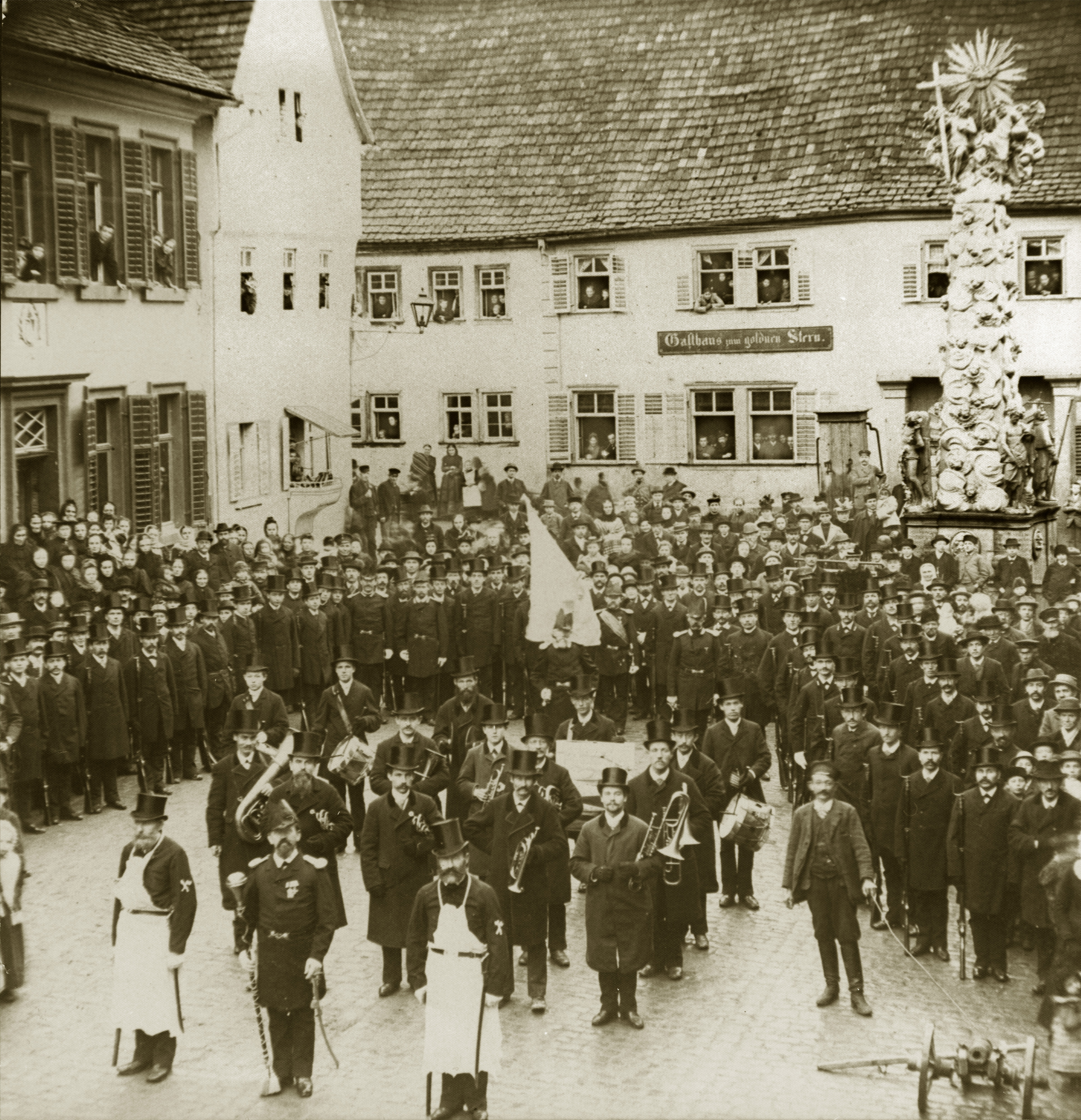 The photo shows the member of the Sebastiani association on the market place in Lengfurt. They wear black frock coats, black top hats and muzzleloader. In the middle of the picture is the band and arount the members of the Sebastiani association is the audience of the Sebastiani celebration. In front of the band stands the drum major. Besides him there are the two pioneers with a white leather skirt and an axe. The picture has been taken at a Sebastiani celebration in 1898. It is the oldes photography of the Sebastiani celebration in Lengfurt.